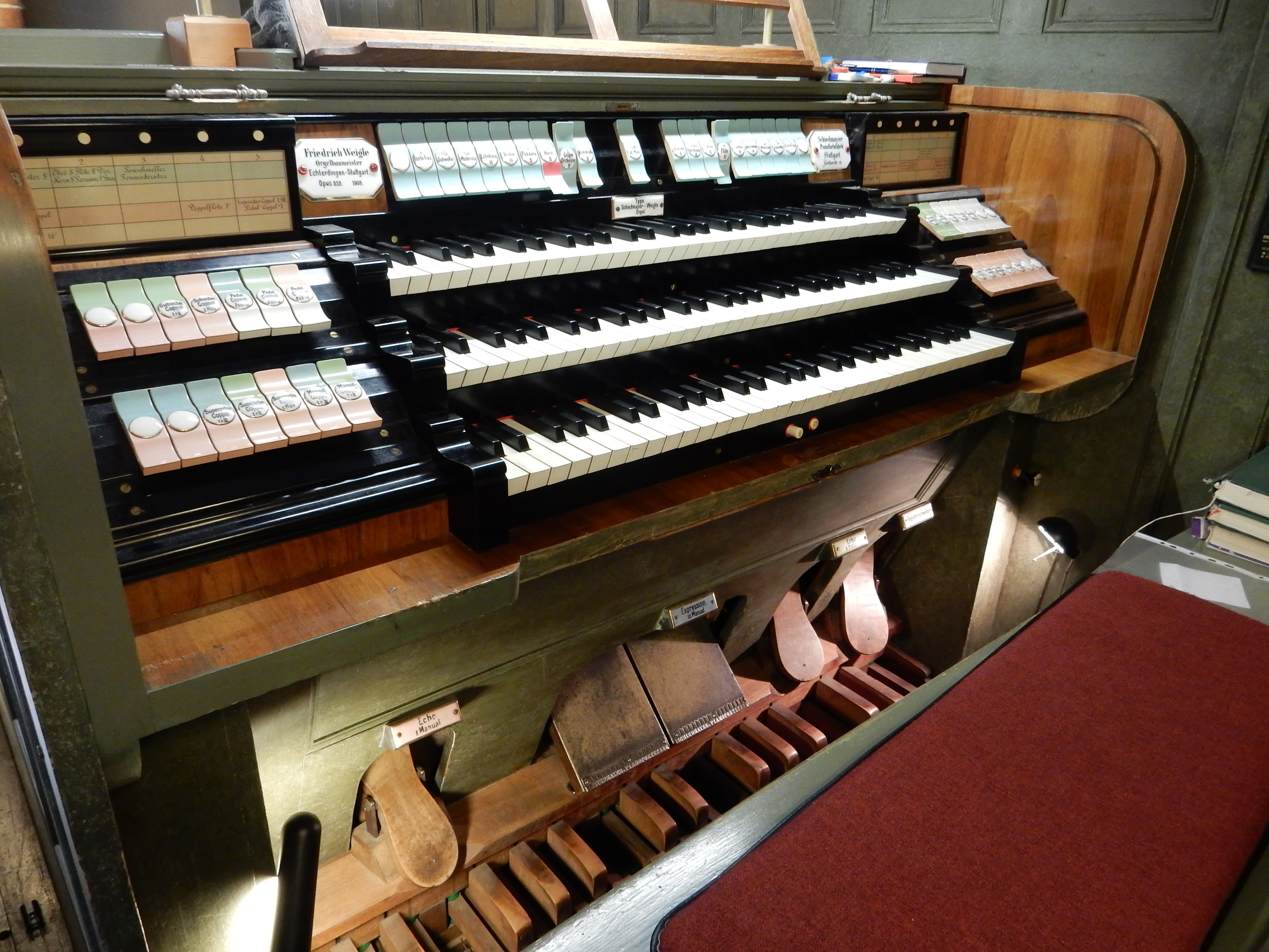 Console of the Parabrahm organ at the Protestant Church at Eichwalde, Brandenburg, Germany